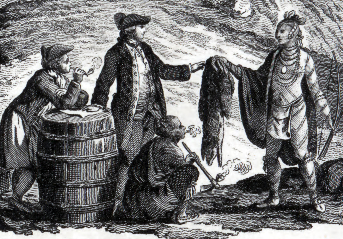 Fur traders in Canada, trading with Indians (1777).